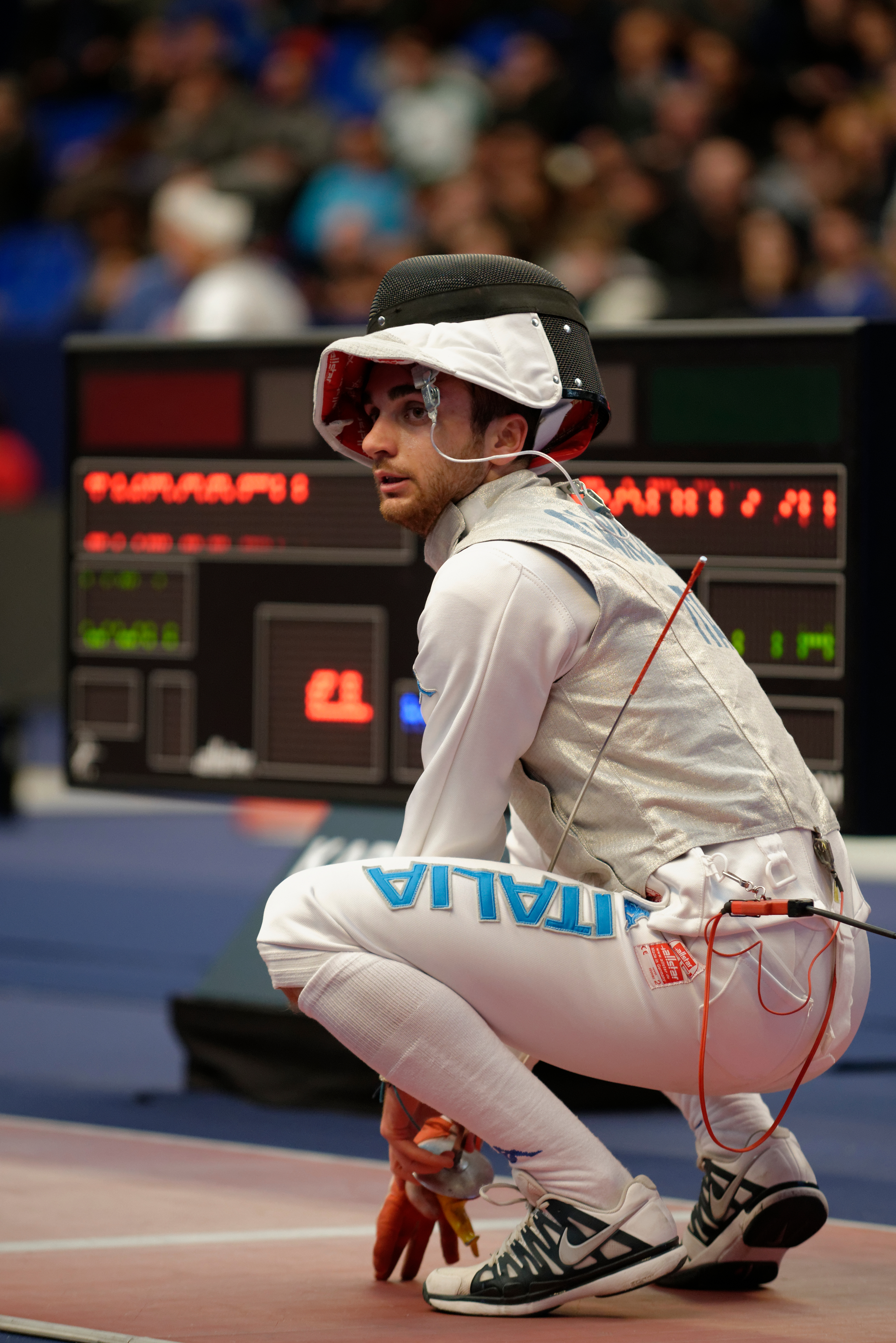 Italy's Daniele Garozzo during his T32 bout against Race Imboden of the United States at the Challenge International de Paris (men's foil World Cup).